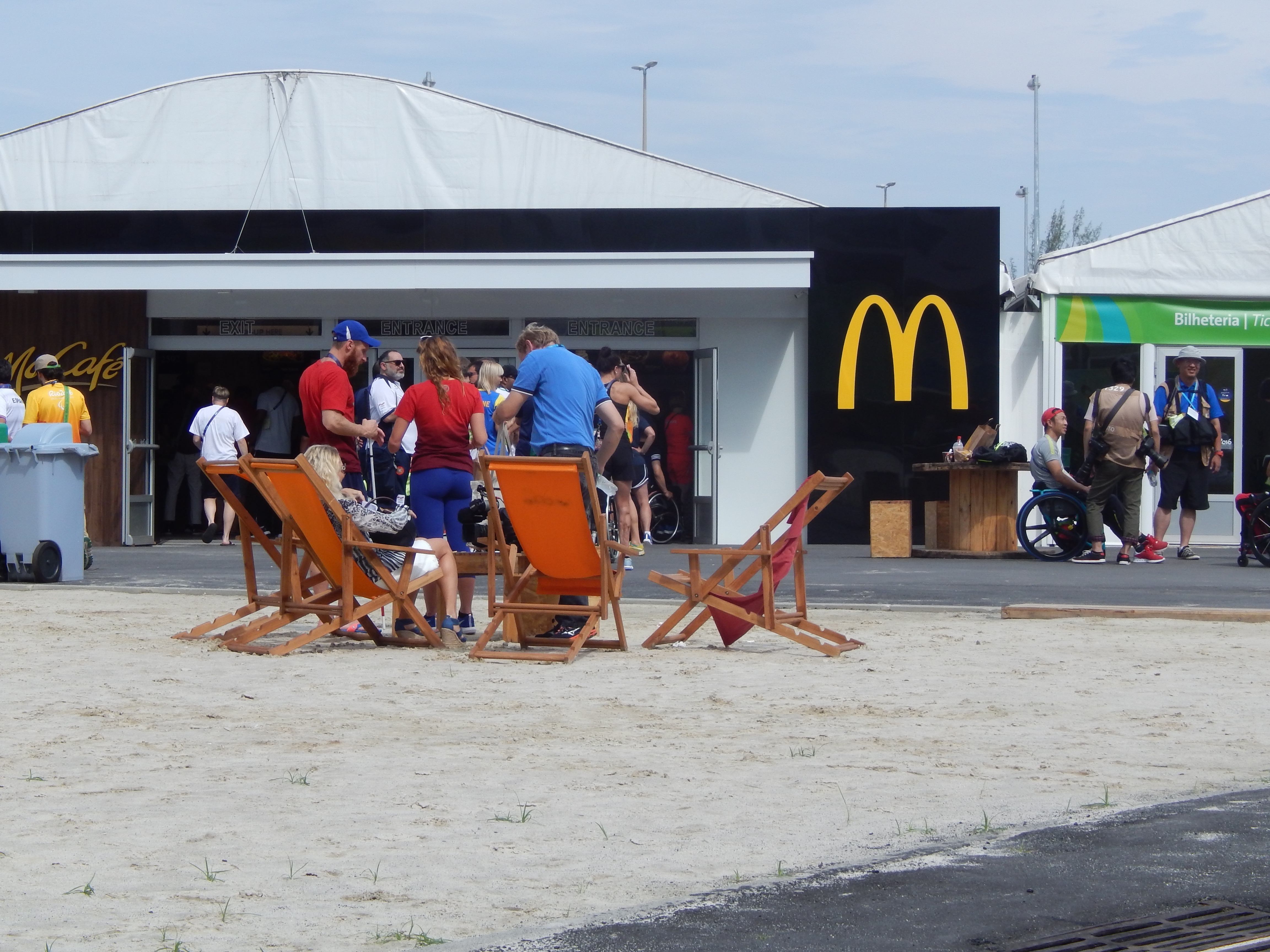 MacDonalds at the Paralympic village in Rio